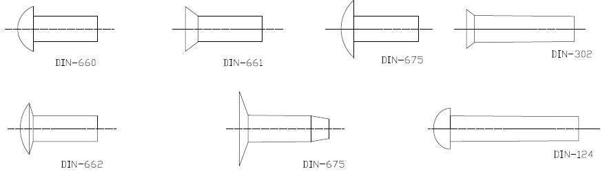 Most common types of Solid Rivets